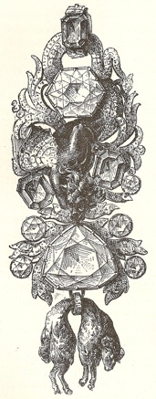 Drawing of the Golden Fleece of Louis XV — formerly of the Crown jewels of France. With the Blue Diamond of the French Crown center-bottom.